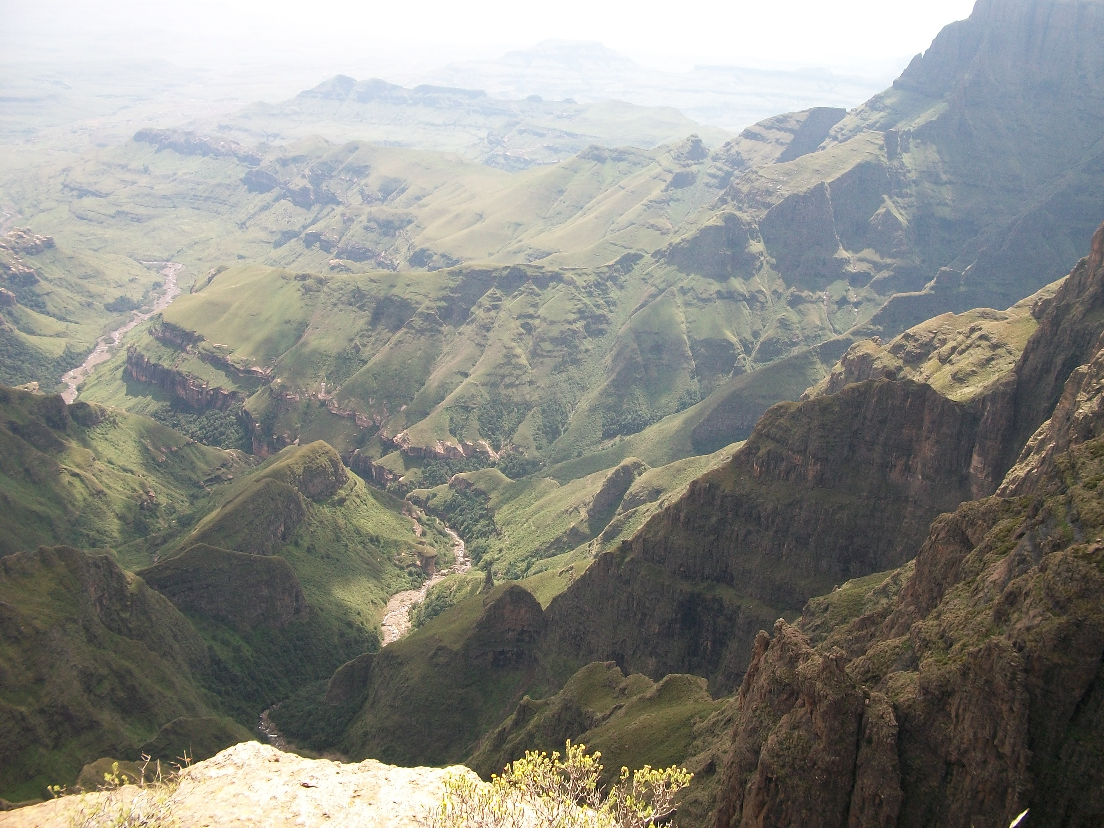 in the vicinity of the Tugela falls, Drakensberg, South Africa